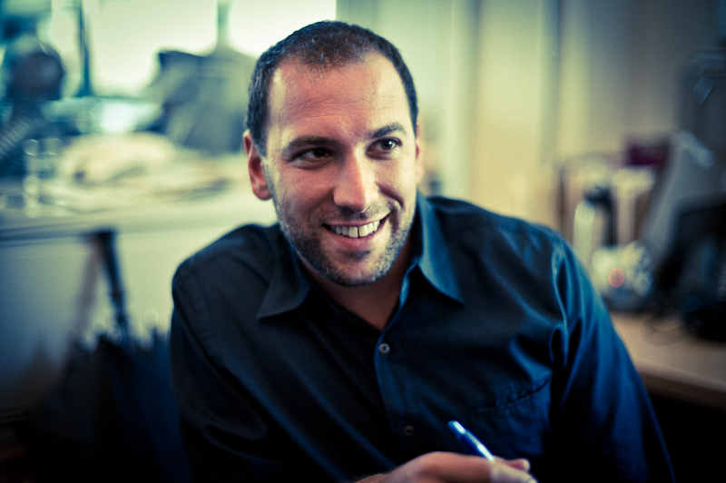 Headshot of Adam Neuhaus